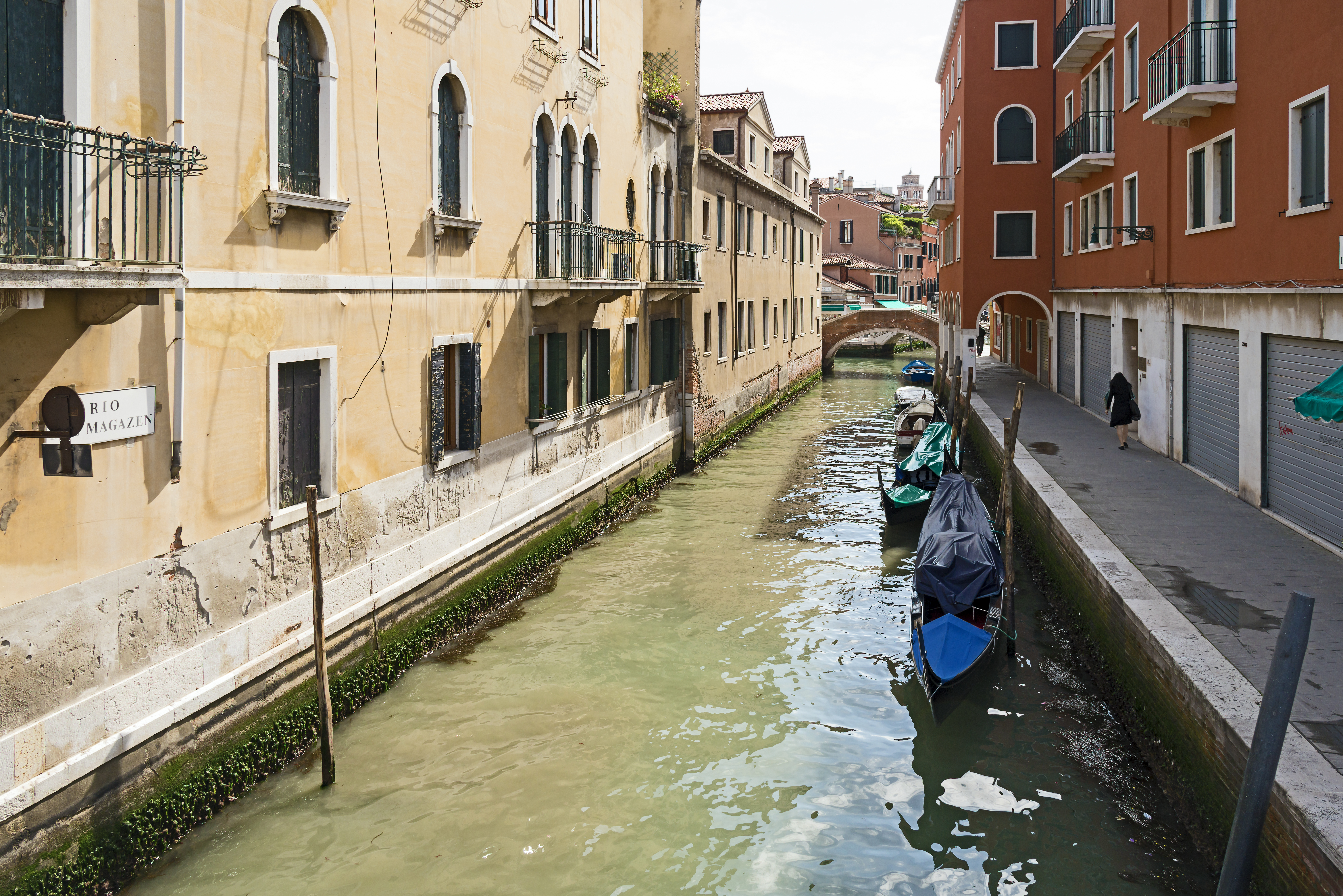 End of Rio del Gaffaro o del Magazen to Venice. View from the ponte dei Tre Ponti to Ponte dei Squartai.